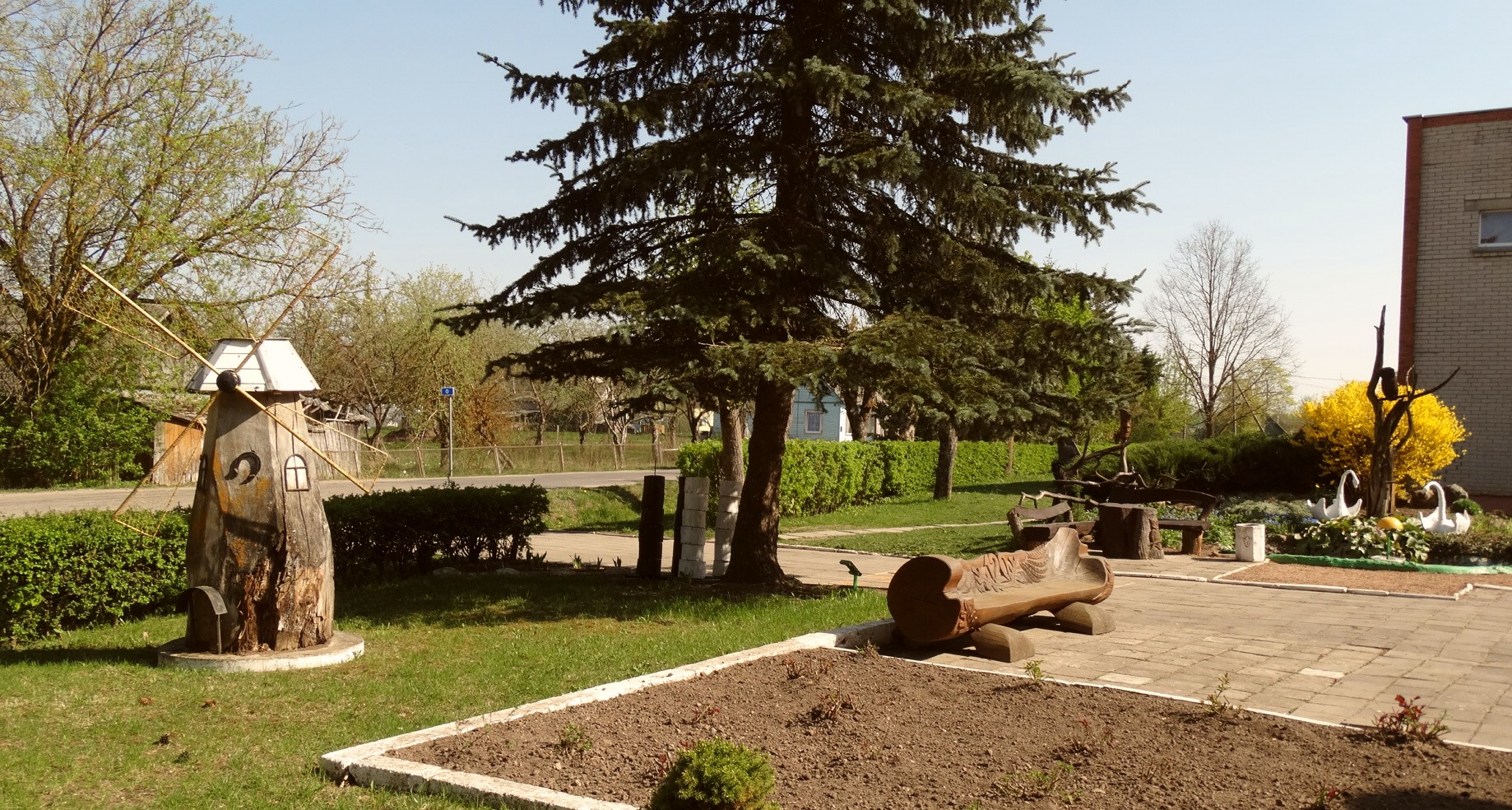 School in Pociūnėliai, Radviliškis District, Lithuania